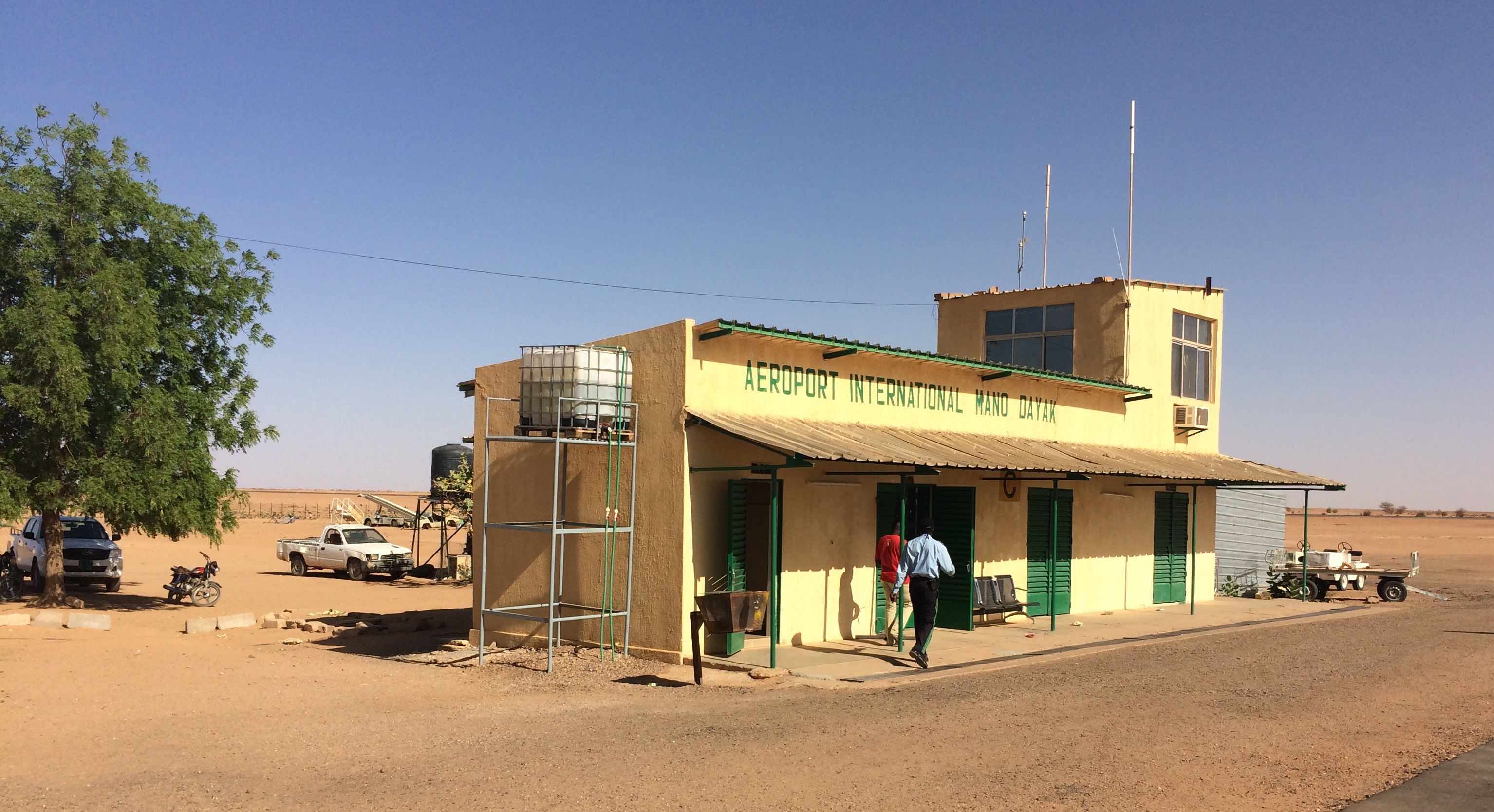 Old airport building at Mano Dayak International Airport in Agadez, central Niger.